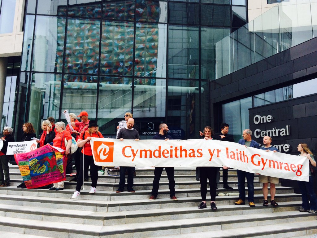 Cymdeithas yr Iaith protesting the Central Square, Cardiff, Wales